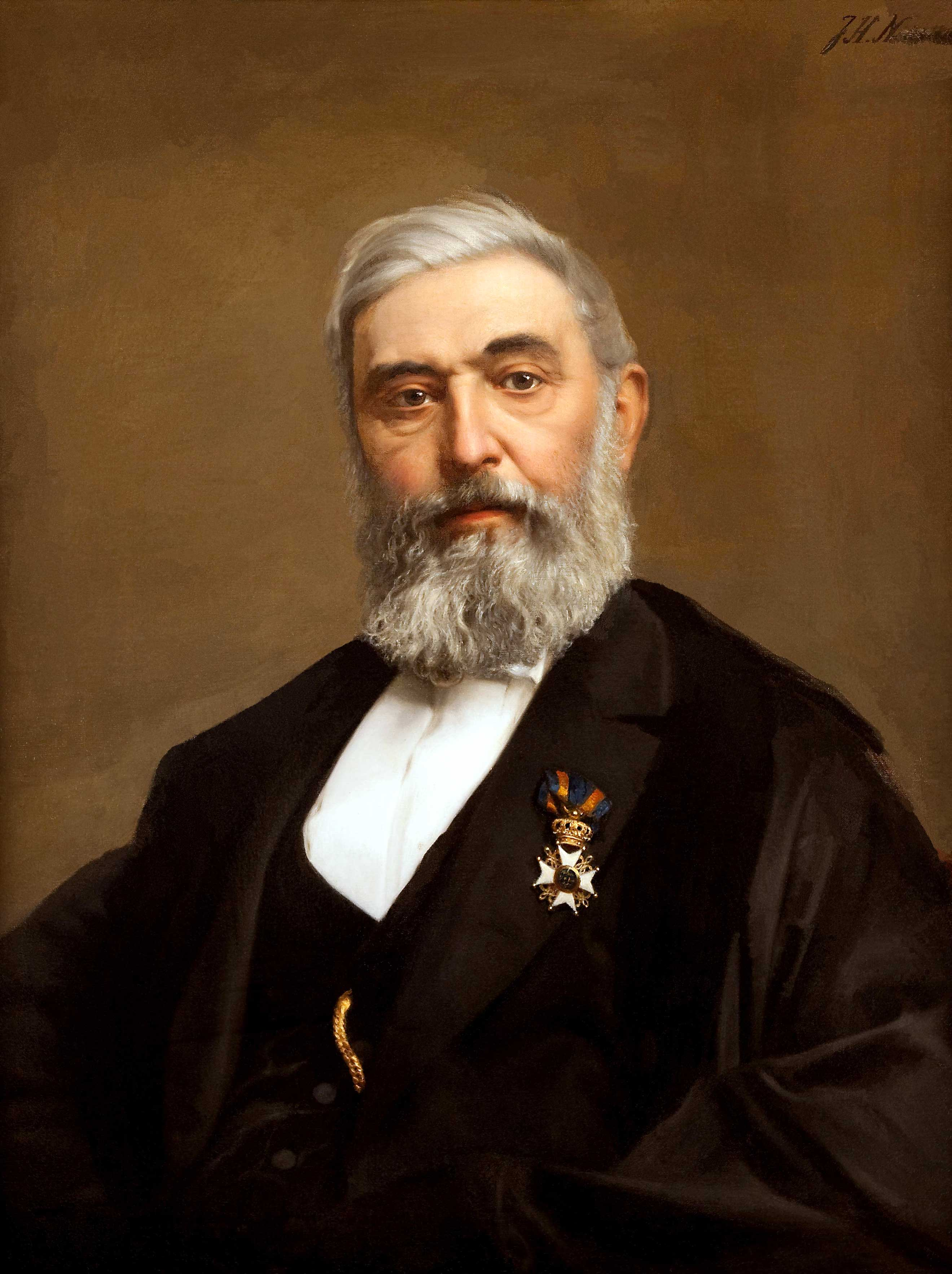 Abraham Everard Simon Thomas (1820-1886), professor gynaecology Leiden University